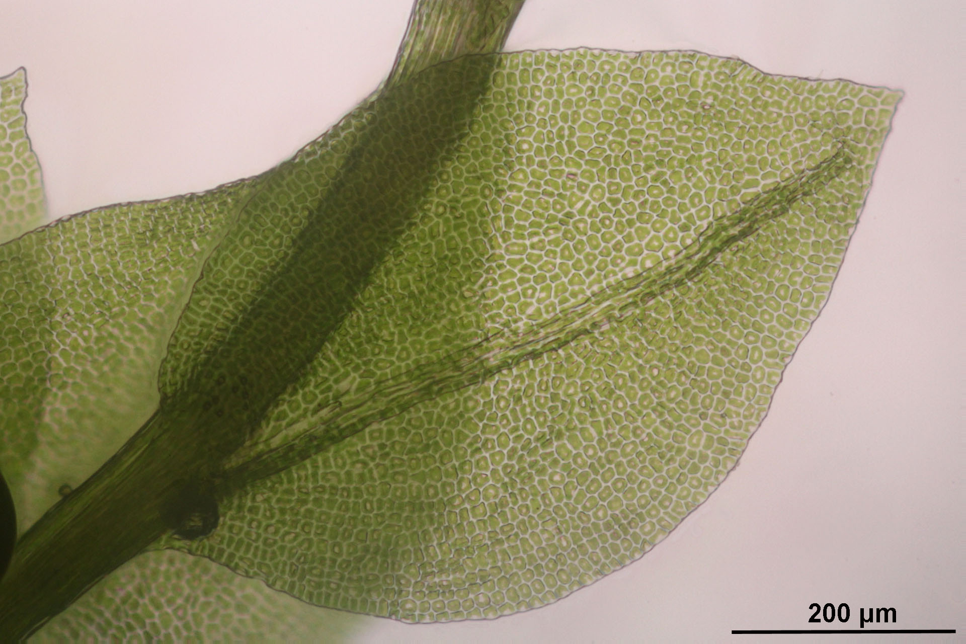 Tetraphis pellucida